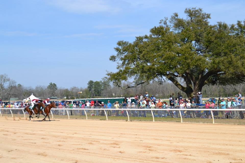 Blue Peter's Tree at the Aiken Training Track during 2014 Aiken Trials.